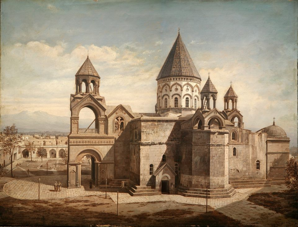 Painting of Echmiadzin Cathedral by an unknown European artist, 1870s kept at the Echmiadzin Cathedral Treasury, Armenia